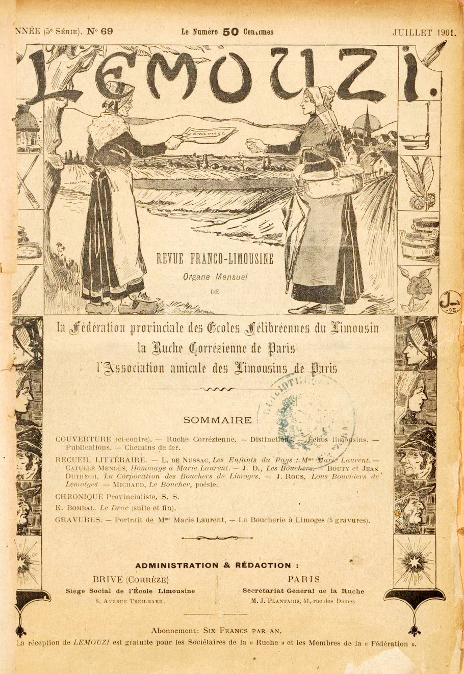 Coverpage of the Occitan magazine Lemouzi (1901, n° 69)